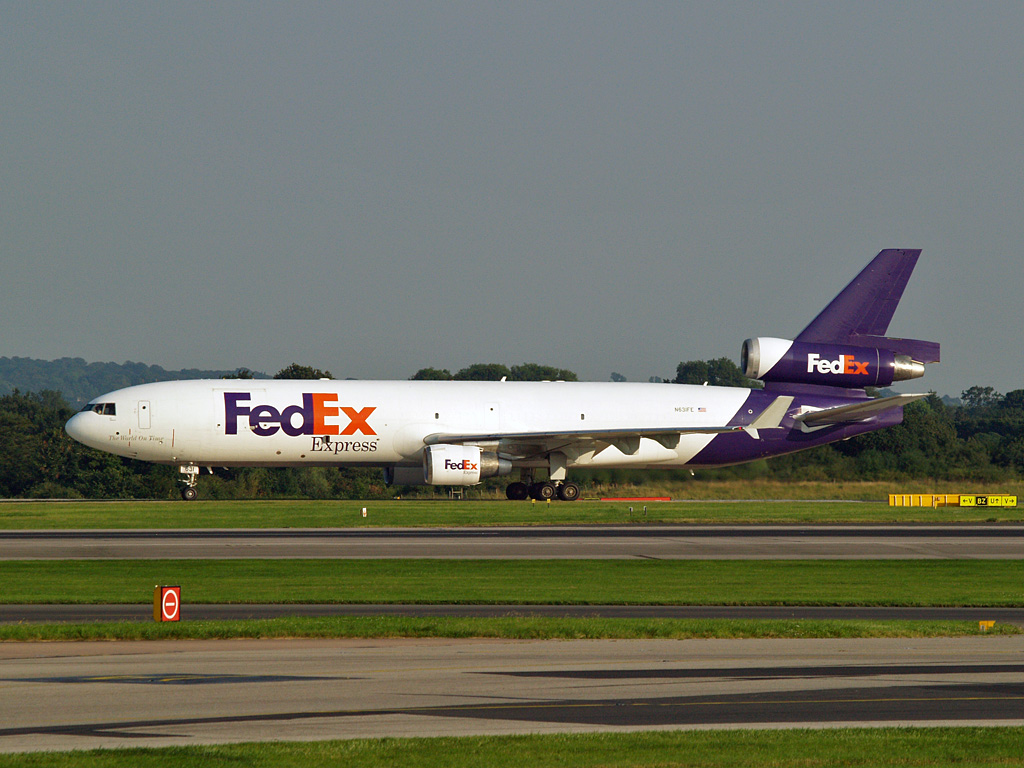 Federal Express Corp (formerly Swiss International Air Lines, originally Swissair) N631FE Lucas, a McDonnell-Douglas MD-11F taxies after landing on runway 05 right at Manchester Airport with flight FDX35 from Paris-Charles de Gaulle to Memphis International Airport. Monday 28th July 2008